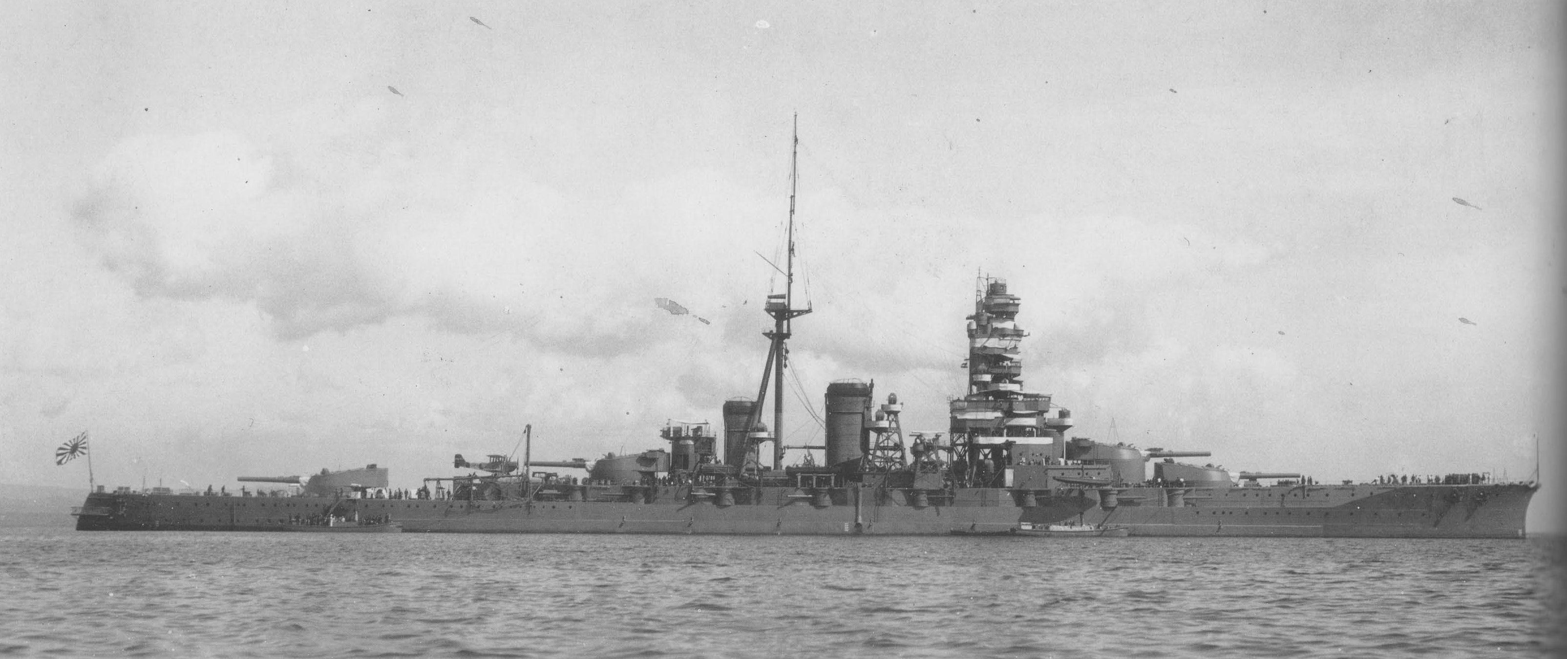 Imperial Japanese Navy battleship Kirishima near Beppu, Kyushu, Japan in mid-October 1932.